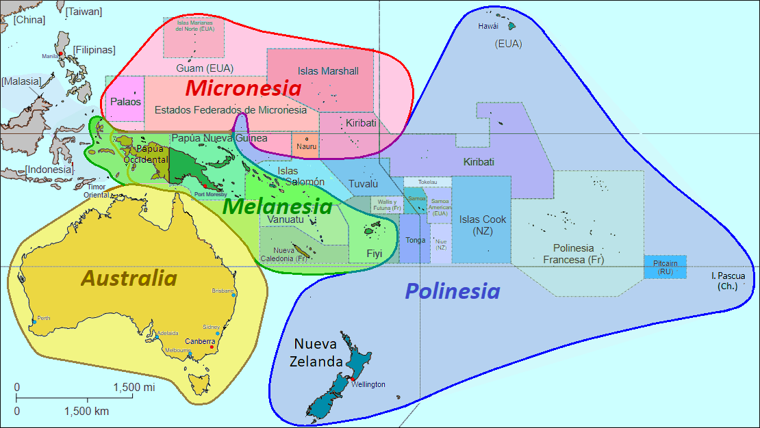 Culture areas of Oceania in spanish